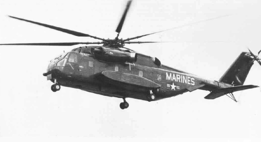 The first Sikorsky YCH-53E Super Stallion (BuNo 159121) on its first flight on 1 March 1974. Note the different tail planes compared to the later production models, the first of which flew on 13 December 1980.